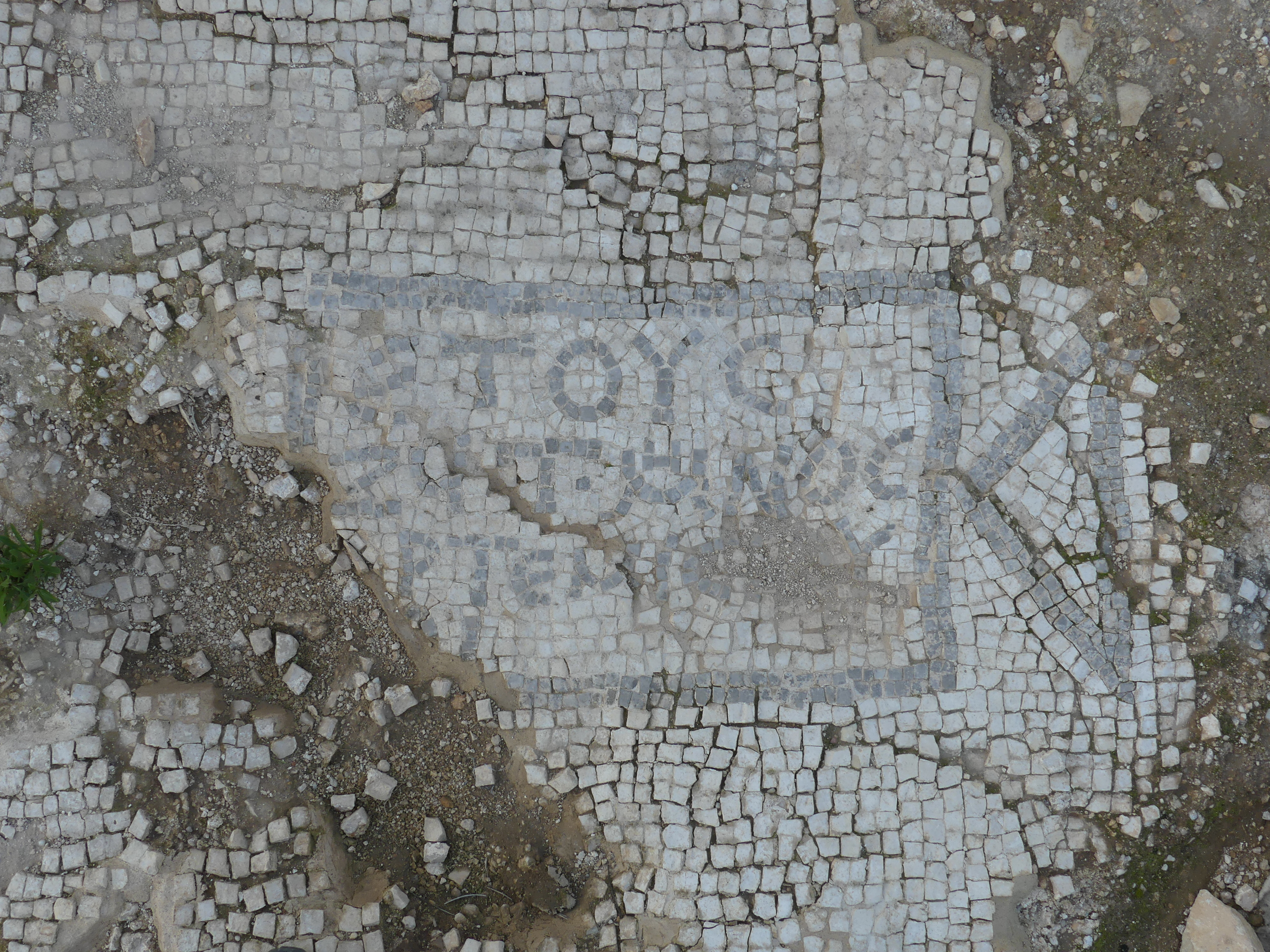 A Byzantine mosaic in the castle of Chamaa (also spelled Chama'a, Chama, or Shama), in Southern Lebanon, some 25 km southeast of Tyre. Built in 1116 by the Frankish Crusaders over the remains of Roman-Byzantine buildings, the citadel was partly destroyed by Israeli attacks in the 2006 war.